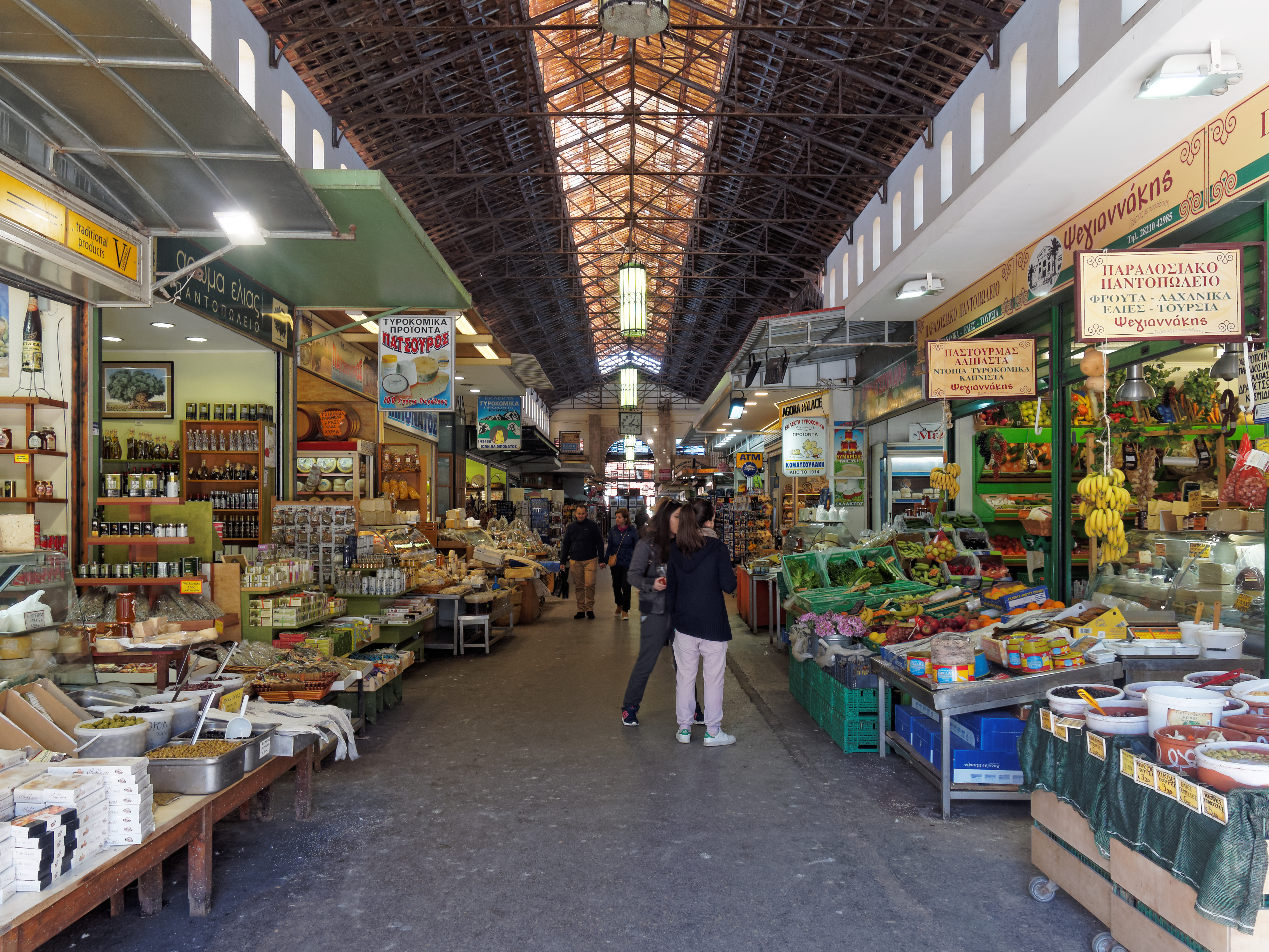 The interior of the Municipal Market of Chania.